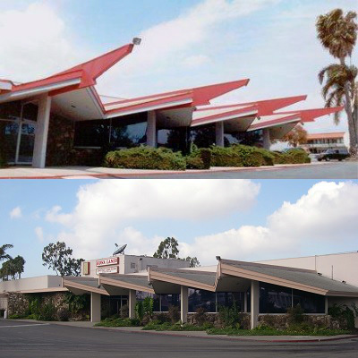 Kona Lanes in Costa Mesa, California, prior to and following a 1980s remodel. The building was demolished in 2003.